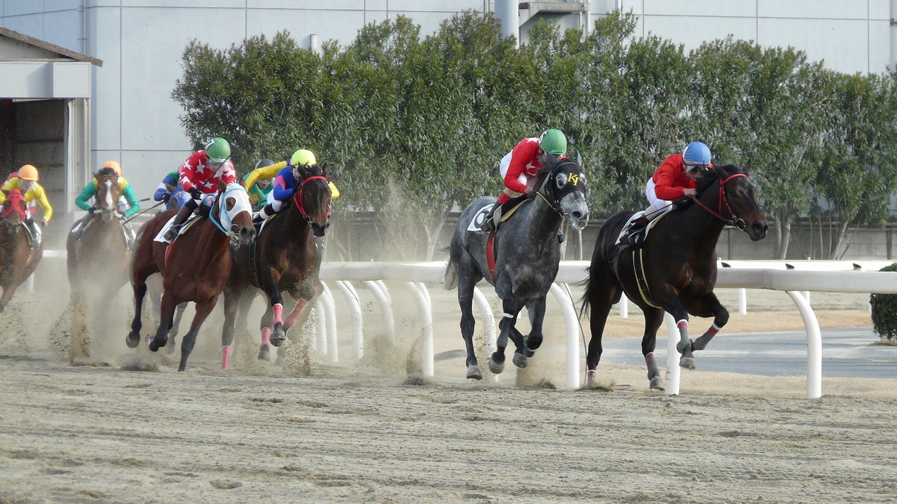 Kawasaki_Racecourse_005